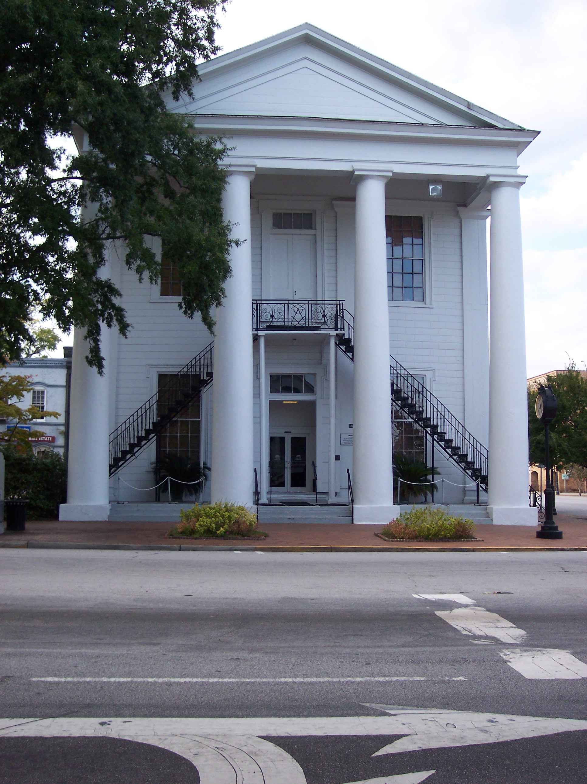 Historical town hall in downtown Cheraw, South Carolina